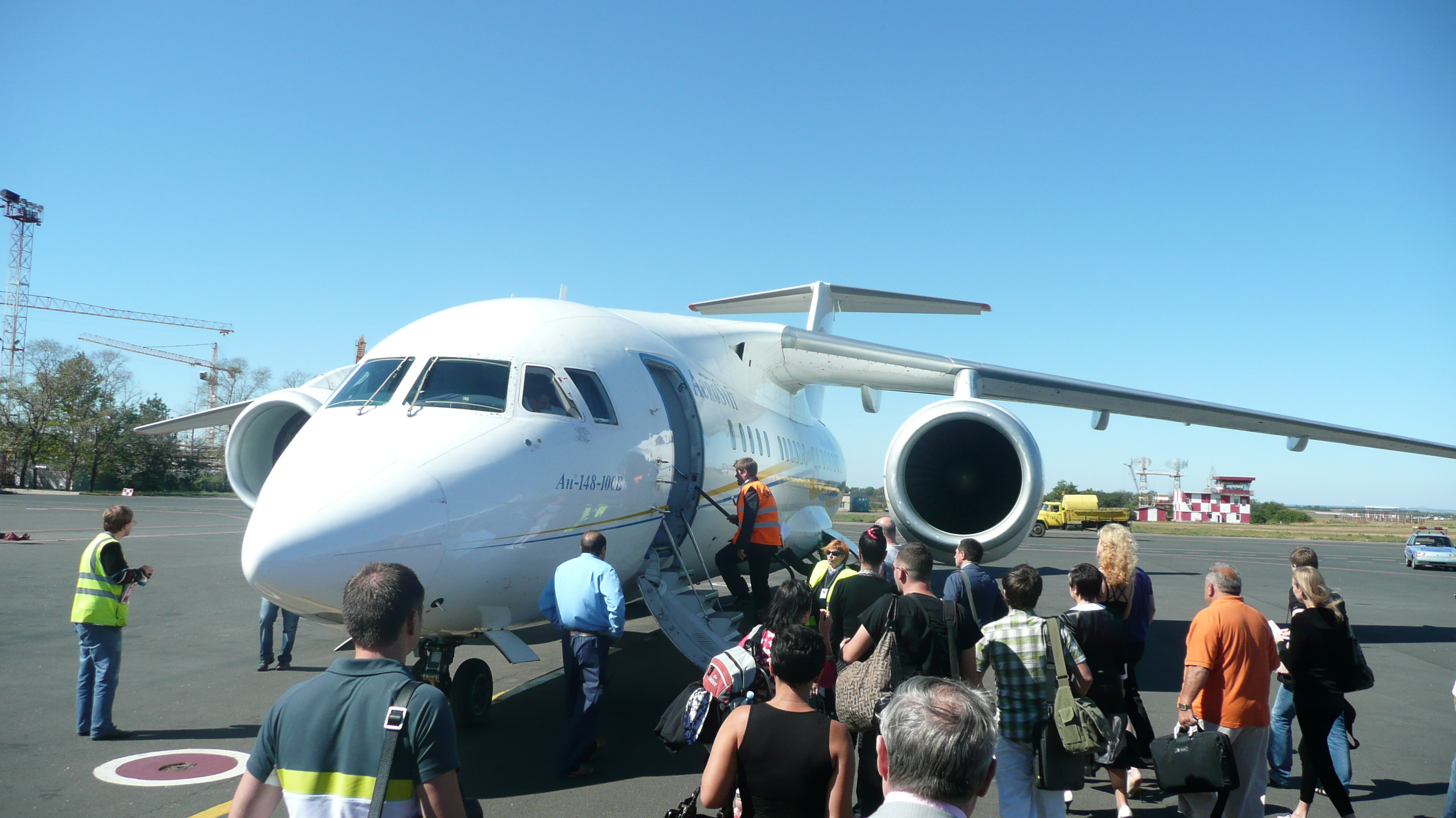 Aerosvit AN-148 at the Donezk International Airport